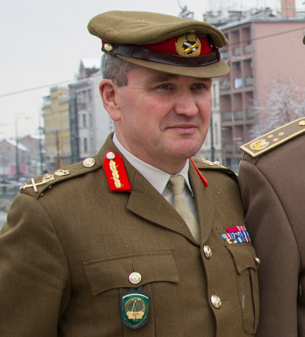 (From left to right) U.K. Army General Sir James Everard, Bosnia-Herzegovina's Chief of Defense Lieutenant General Anto Jelec, Minister of Defense Marina (Zdravko) Pendes, and Admiral James Foggo pose for a group photo on Feb. 21 in Sarajevo. Latin Bridge, where Gavrilo Princip assassinated Archduke Franz Ferdinand of Austria and his wife, Sophie, on June 28, 1914, which is the event historians cite as the start of World War I. The bridge spans Sarajevo’s Miljacka River and is a two-block walk from Bosnia-Herzegovina’s Ministry of Defense. Photo by U.S. Air Force Staff Sergeant Amber Sorsek.